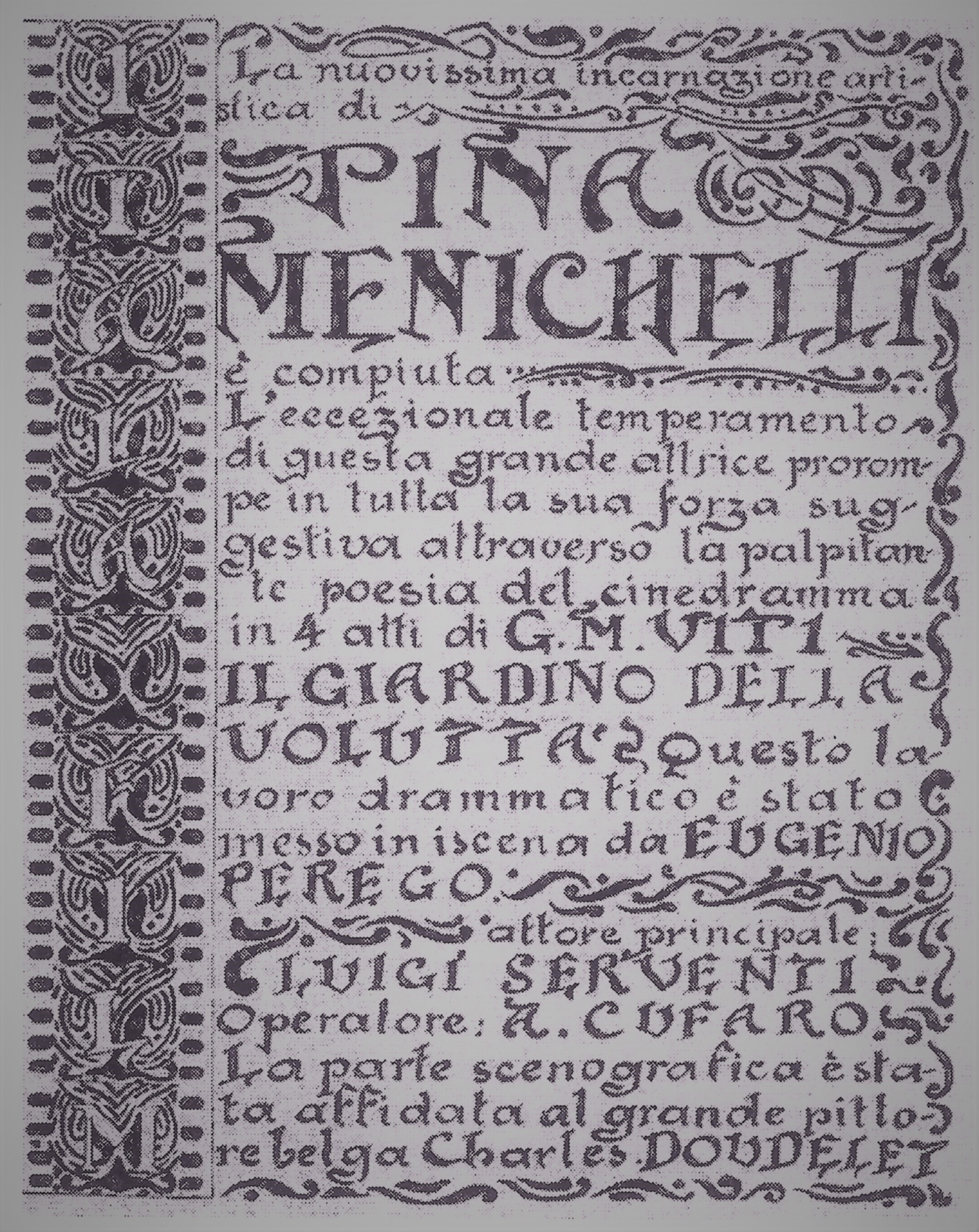 Poster silent film 1918 Il Giardino della Volutta with Pina Menichelli art director Charles Doudelet